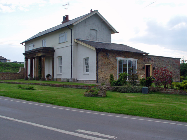 Bempton Railway Station, Bempton, East Riding of Yorkshire, England.This fine building stands on Newsham Hill Lane.